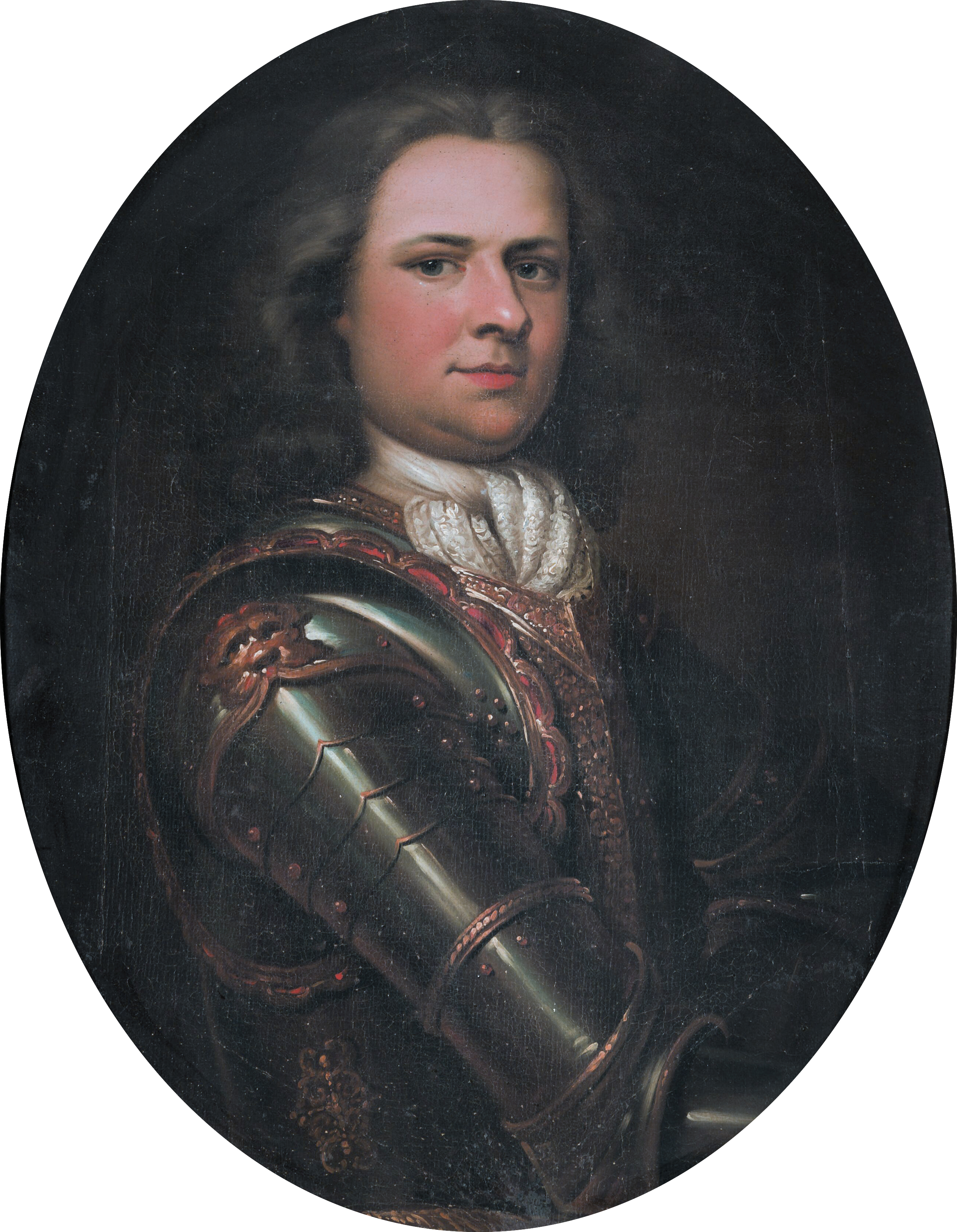 Frederik Christiaan van Reede van Ginkel (1668-1719) oil on canvas 80,5 x 61,5 cm 1675 - 1699